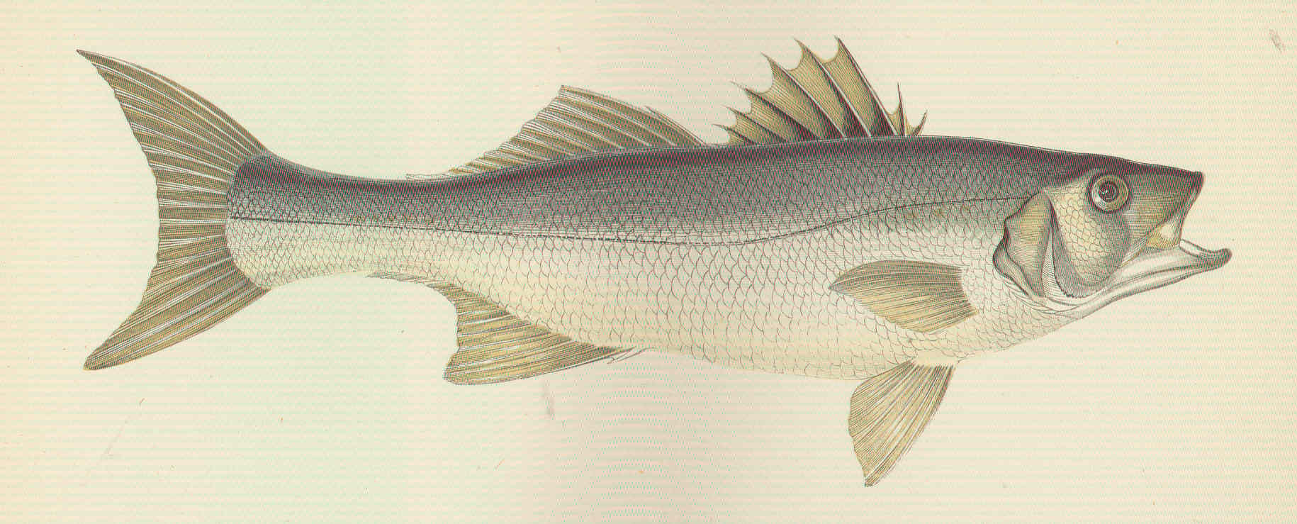 Bass Lupus Perca labrax Labrax lupus Subject: Basses (Fish) Tag: Fish